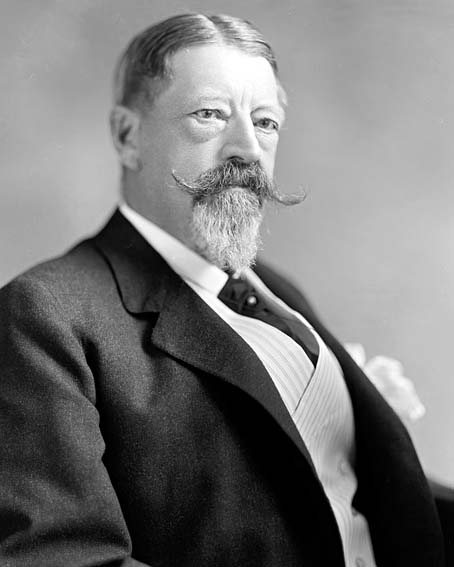 William Rush Merriam, Governor of Minnesota